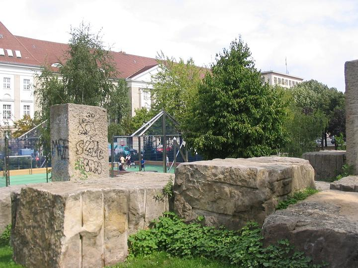 Kurt-Hiller-Park in Berlin-Schöneberg, built in 2000. The name is to commemorate Kurt Hiller. Hiller was a German writer and pacifist journalist, who fought lifelong for socialism, peace and the rights of sexual minorities. In the background the mediahouse of the Berlin University of the Arts